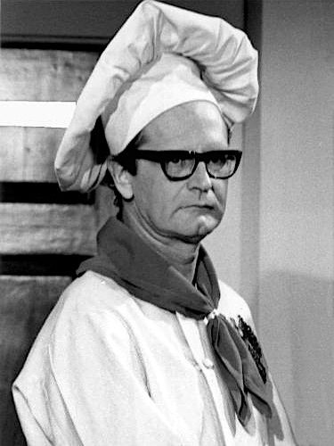 Publicity photo of American actor, Charles Nelson Reilly, promoting his recurring role as "Randy Robinson" on the CBS television series Arnie, 1971.